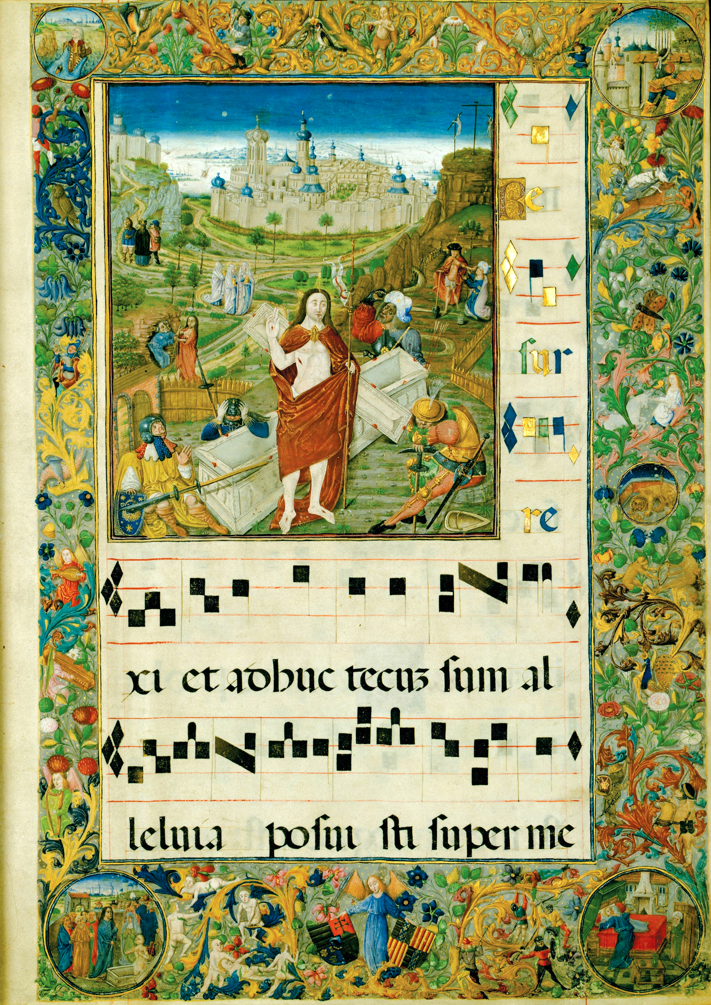 Matthias Graduale 1480, Begin of the Introit "Ressurexi" of Eastern Sunday, Graduale - Cod. Lat. 424 f003r